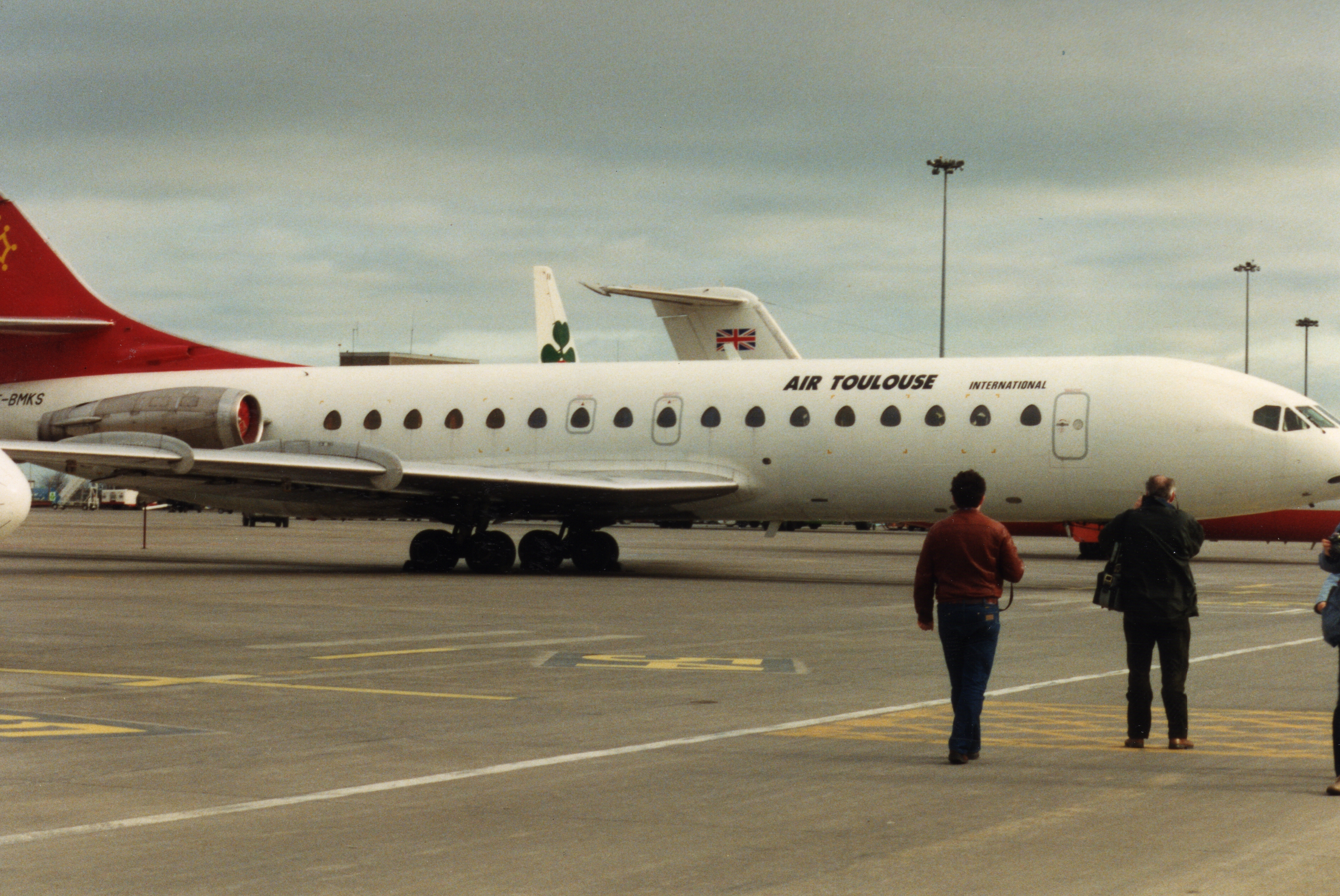 Air Toulouse (F-BMKS) Sud Aviation Caravelle aircraft, Dublin Airport, Dublin, Republic of Ireland, February 1993